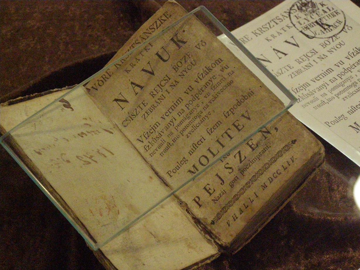 Vöre krsztsánszke krátki návuk, by István Küzmics. Original edition in Exhibition of Library of Murska Sobota